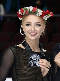 Alexandra Stepanova and Ivan Bukin - 2019 Skate America - Awarding ceremony